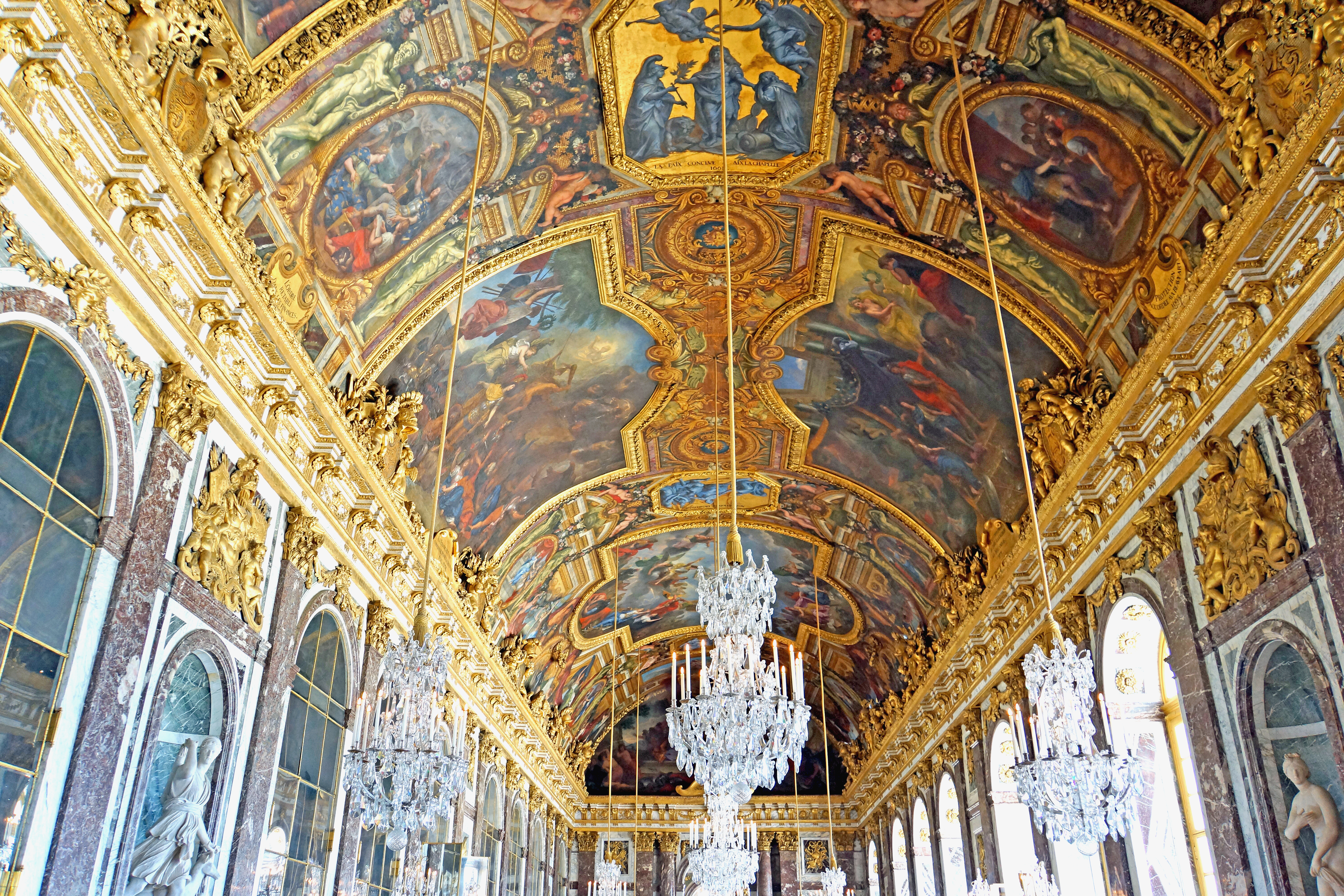 PLEASE, NO invitations or self promotions, THEY WILL BE DELETED. My photos are FREE to use, just give me credit and it would be nice if you let me know, thanks. The Hall of Mirrors is the central gallery and most remarkable feature of King Louis XIV's third building campaign. The distinctive feature of the hall are the seventeen arches, each containing twenty-one mirrors, that reflect the seventeen arcaded windows overlooking the gardens. The room demonstrated that the new French production of mirrors, which at the time were luxury objects, was capable of stealing the monopoly away from Venice. The Hall was used by courtiers and visitors passing through, waiting and meeting people. Used for diplomatic receptions, with the throne at one end so that ambassadors needed to cross the entire hall watched by the court. The Gallery hosted the wedding celebrations of the Duke of Burgundy, grandson of Louis XIV, in 1697, and of the son of Louis XV in 1745. The masked ball for the wedding of Marie-Antoinette and the Dauphin, the future Louis XVI, in May 1770. It was here that the treaty of Versailles was signed on 28th June 1919, which sealed the end of the First World War. Since then, the presidents of the Republic of France continue to receive the official hosts of France here.